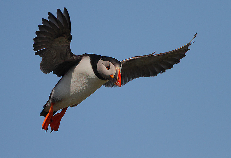 An adult bird returning to the Isle of May breeding colony in mid-April.